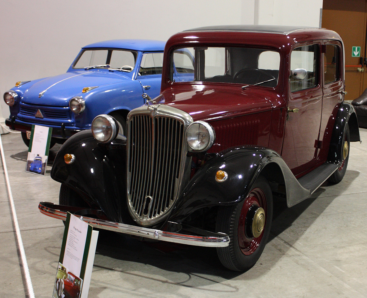 Praga Piccolo typ 306 (1934-1936?, 1,447 cc, 28 hp), shared its body and chassis with the larger engined Super Piccolo.